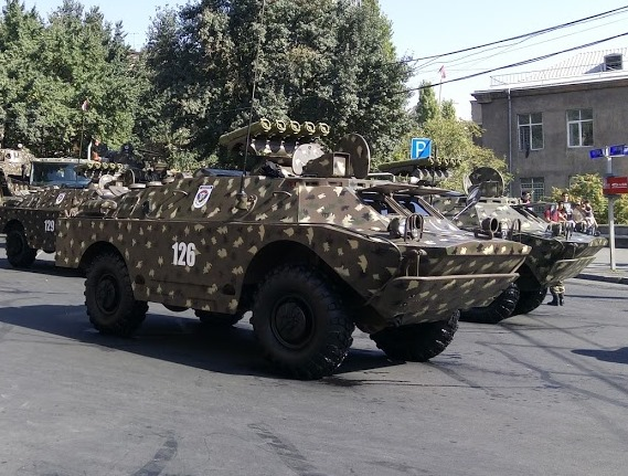 Tank Destroyer